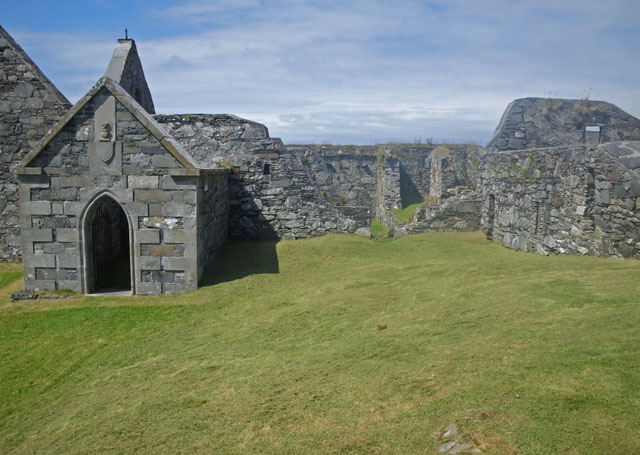 Elements within the Oronsay Priory Viewed from within the priory complex.